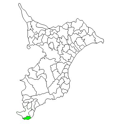 Location Map of former Shirahama Town, Chiba Prefecture, Japan, now part of Minamiboso City.